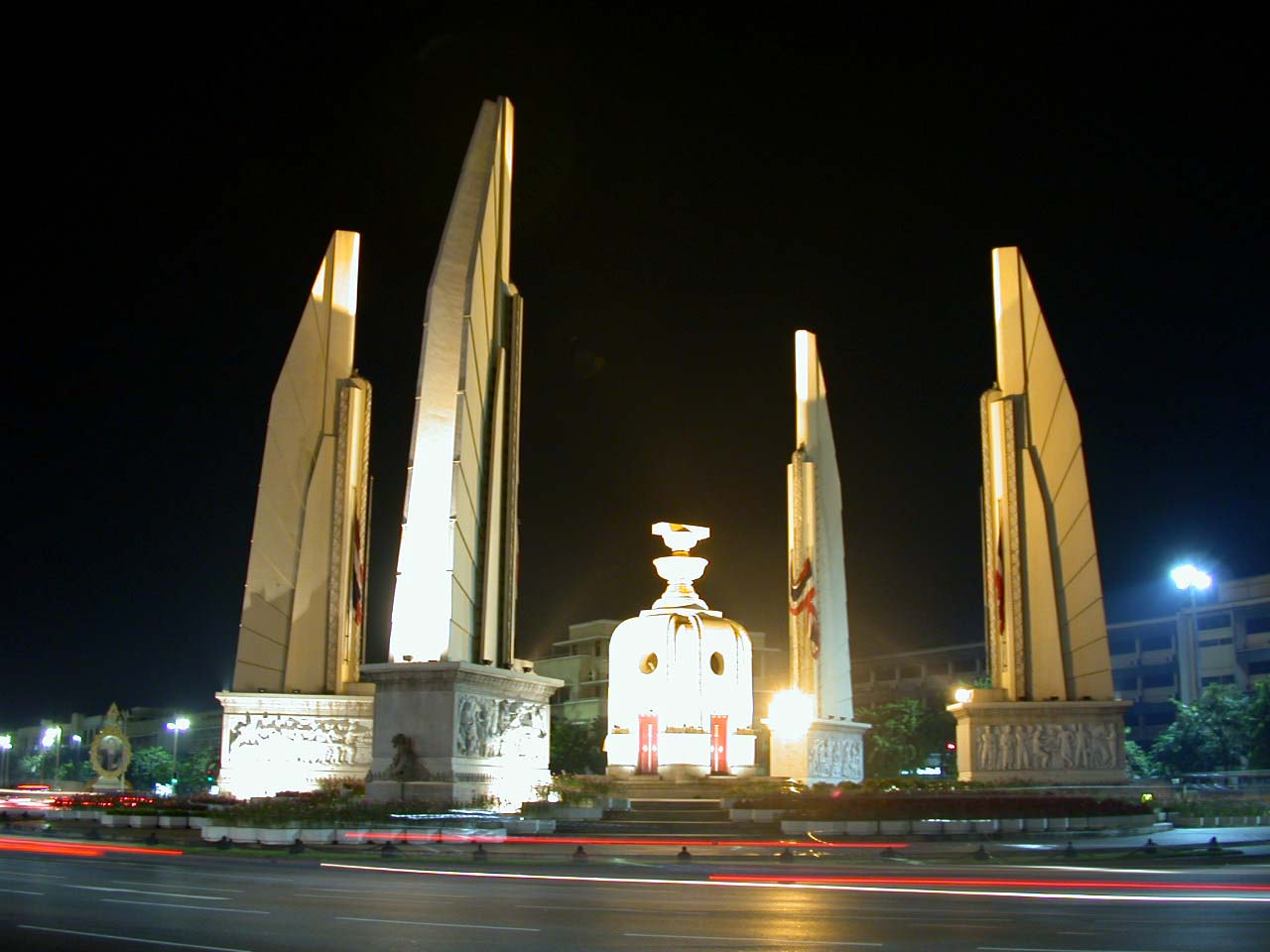 Democracy Monument in Bangkok, Thailand, October 2001